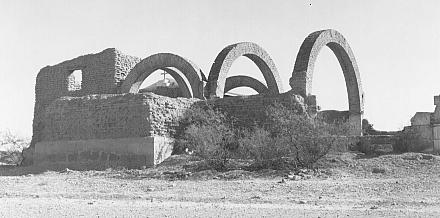 Ruins of Los Santos Reyes de Cucurpe, Sonora. Photo 1970